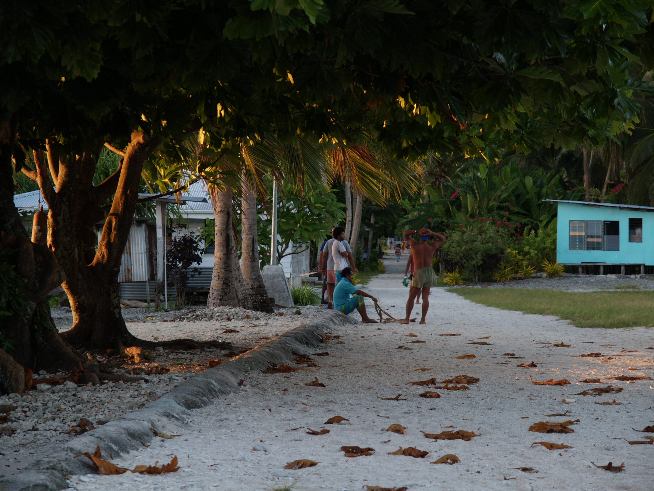 The main street of Atafu village (Tokelau) at dawn. A group of men have gathered to practise canoe paddling.